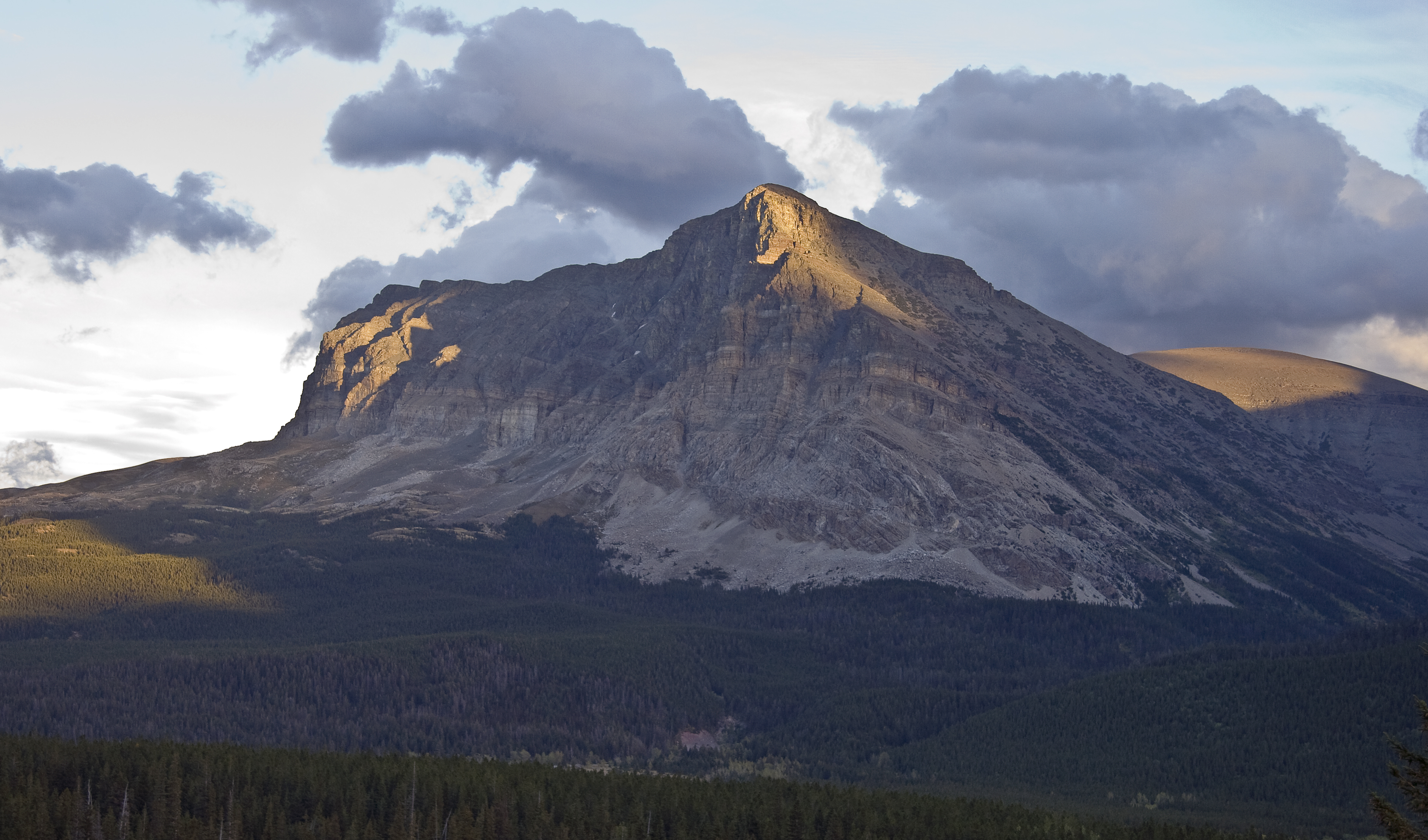 Wynn Mountain in Glacier National Park at the west end of Lake Sherburne near Many Glacier.